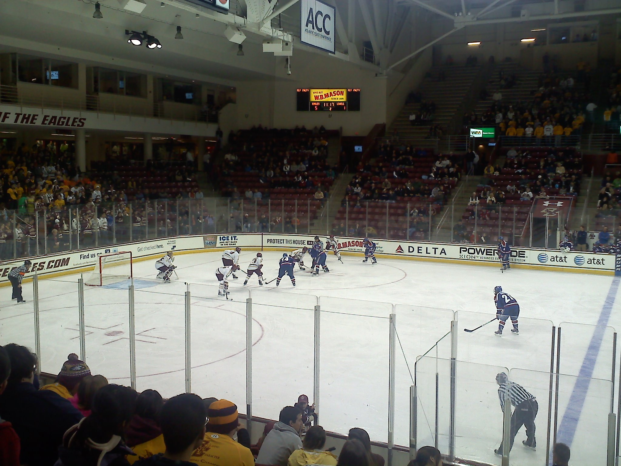 UMass-Lowell vs. Boston College at Kelley Rink in Hockey East play, 10/29/2011